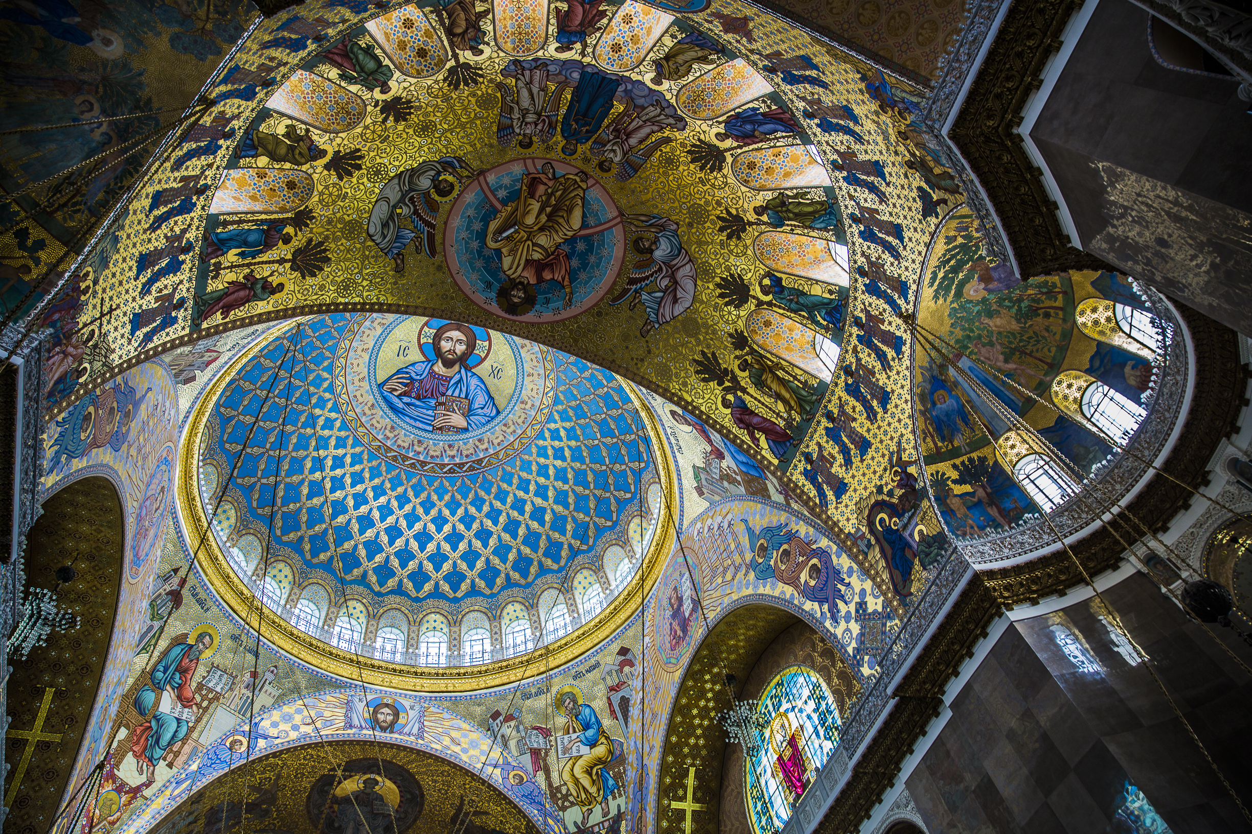 Naval Cathedral in Kronstadt was built from 1908 to 1913 and is considered to represent a culmination of Russian Neo-Byzantine architecture.